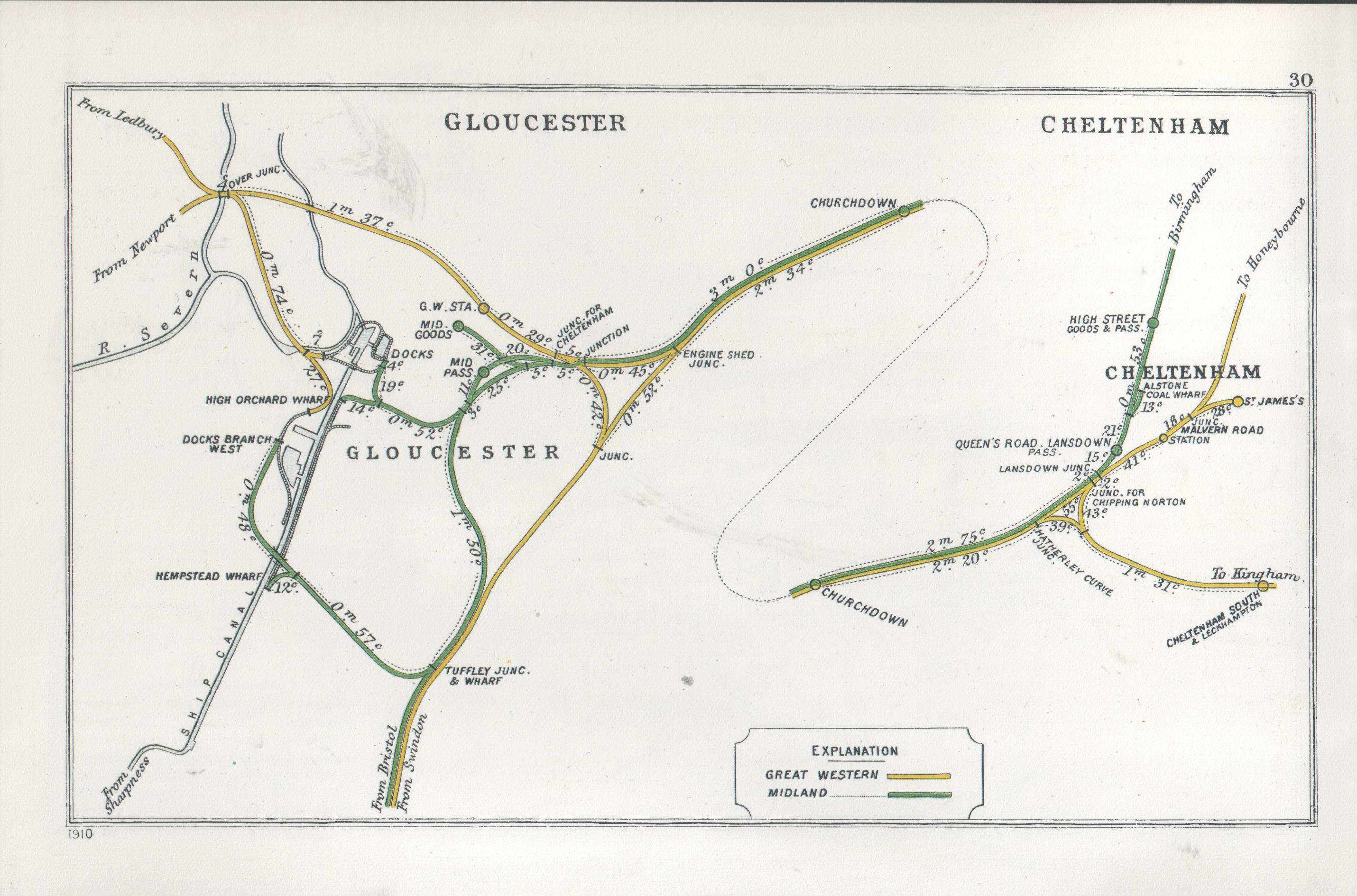 Pre Grouping railway junction around Gloucester; Cheltenham